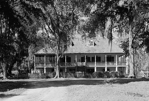 Parlange Plantation, State Highway 93, New Roads vicinity (Pointe Coupee Parish, Louisiana) (cropped)